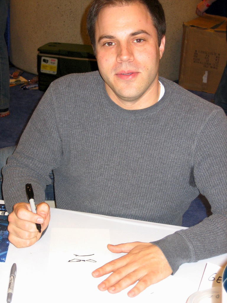 Comic-book writer Geoff Johns being surprisingly photographed during 2006 Wondercon.